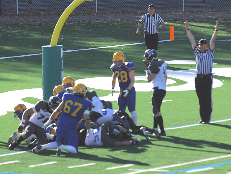 60 Drayke Unger Offensive Line Touch Down Playoff game between the Winnipeg Rifles and Saskatoon Hilltops on October 19, 2014 at the Saskatoon Minor Football Field] SMF (was Gordie Howe Field). Game finalized with a 43 to 13 score in favour of the Hilltops. The Hilltops proceed to the Prairie Football Conference PFC finals on Sunday October 26, 2014